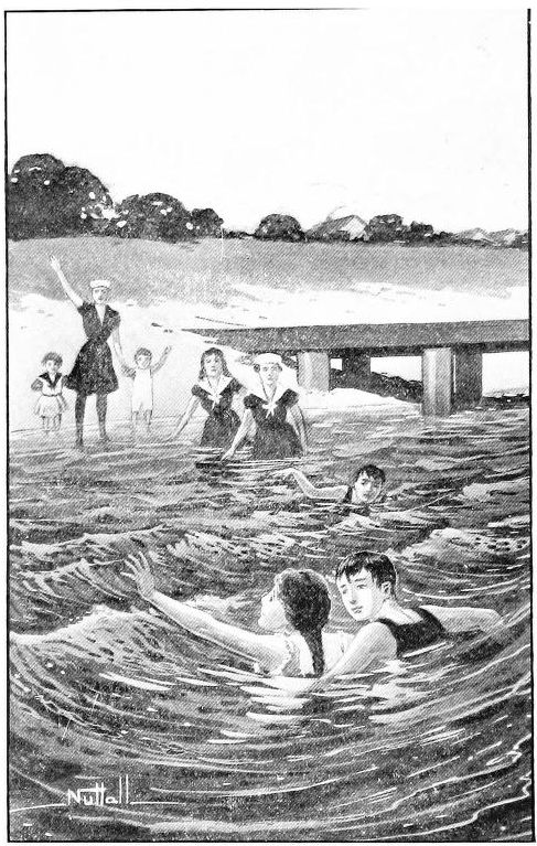 jpg of page 4 of File:Bobbsey Twins at the Seashore.djvu